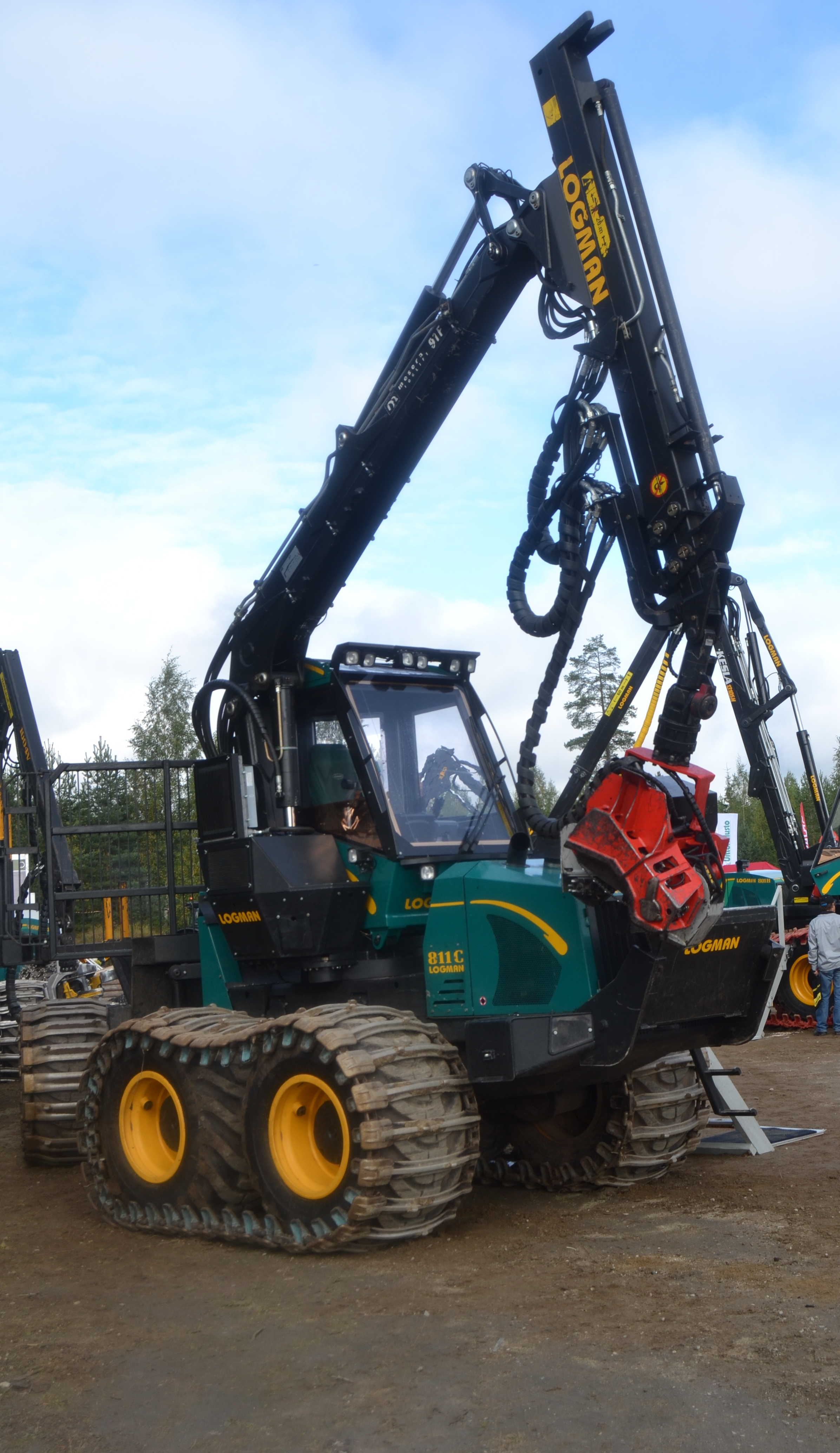 Logman 811C combi-machine (harvester and forwarder)